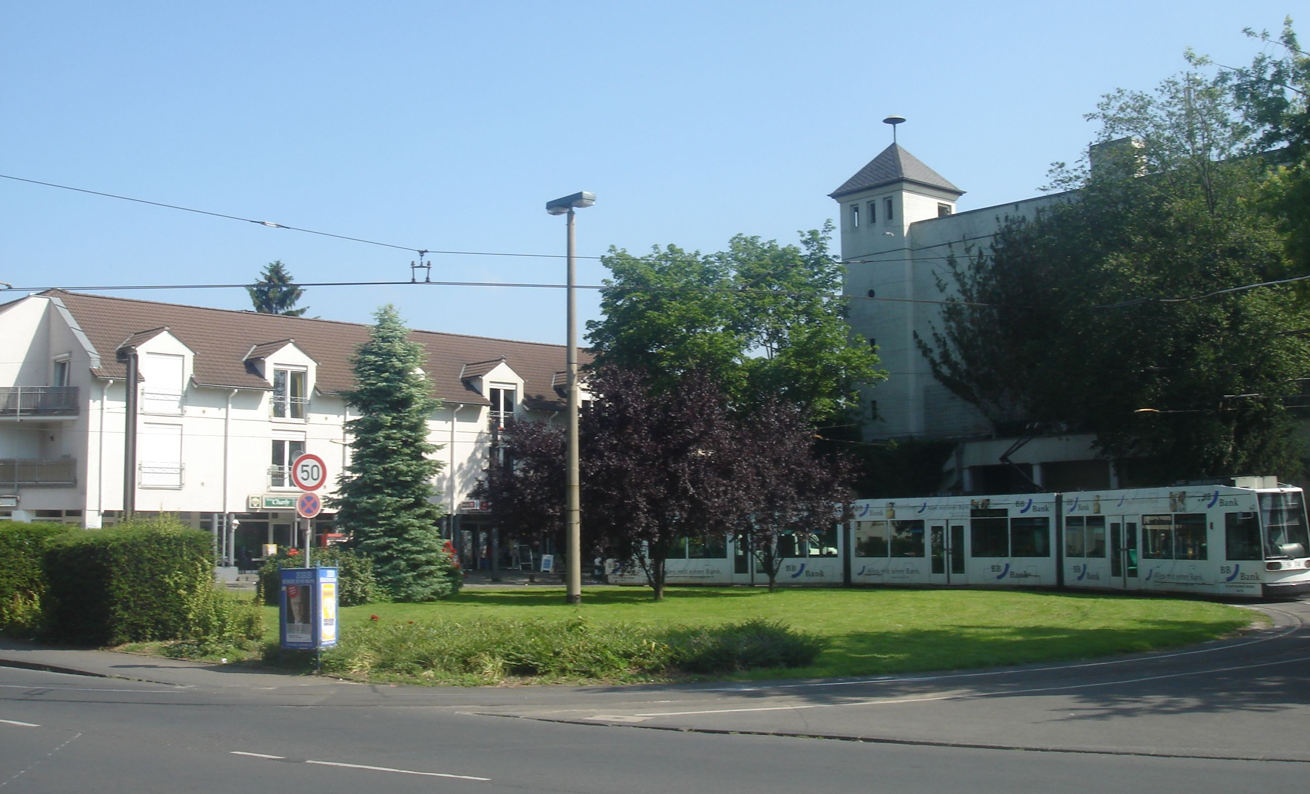 Square Quirinusplatz in Bonn-Dottendorf, Germany.